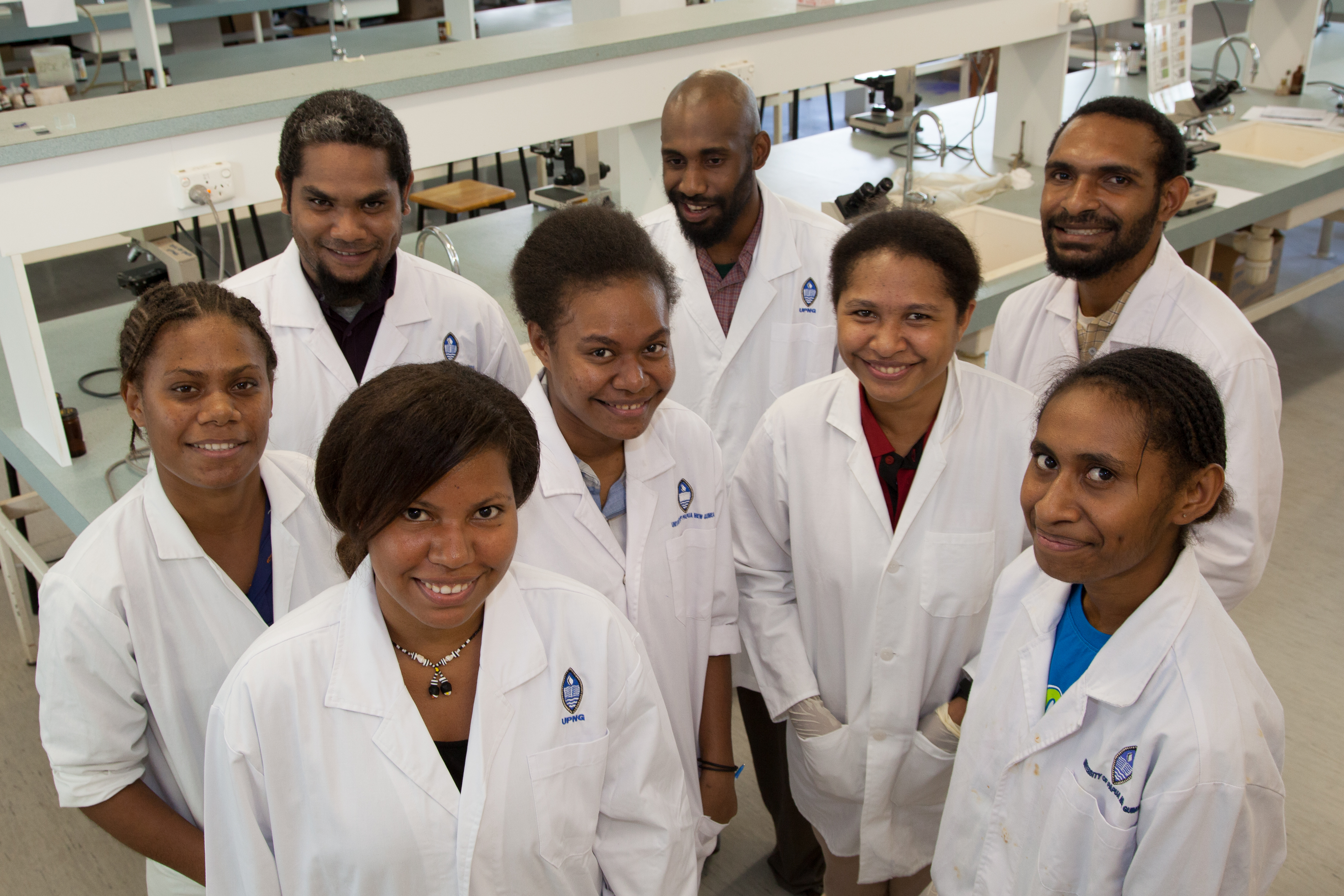 Second year medical students from the UPNG School of Medicine and Health Science at the labs at the Port Moresby General Hospital, PNG. Photo taken by Ness Kerton for AusAID. (13/2529)